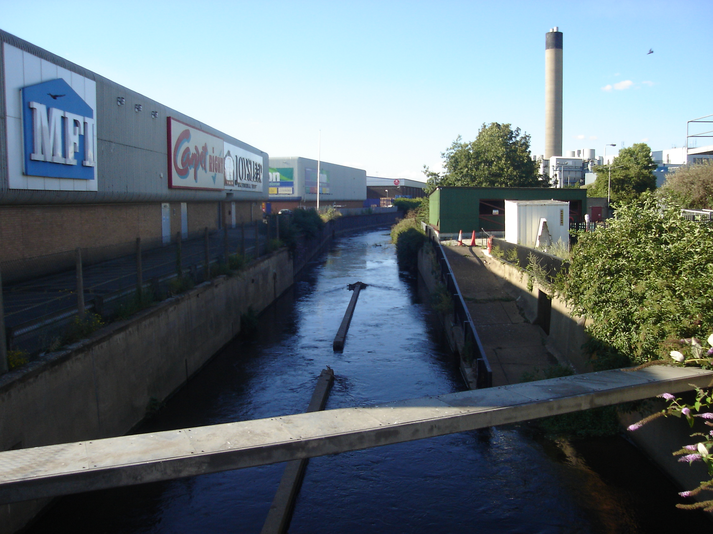 picture of Salmons Brook